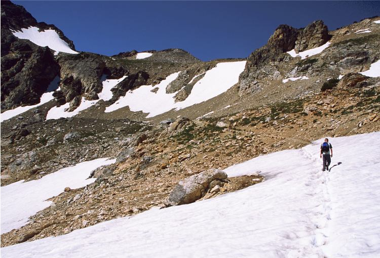 A hiker crosses a snowfield enroute to Paintbrush Divide, Grand Teton National Park